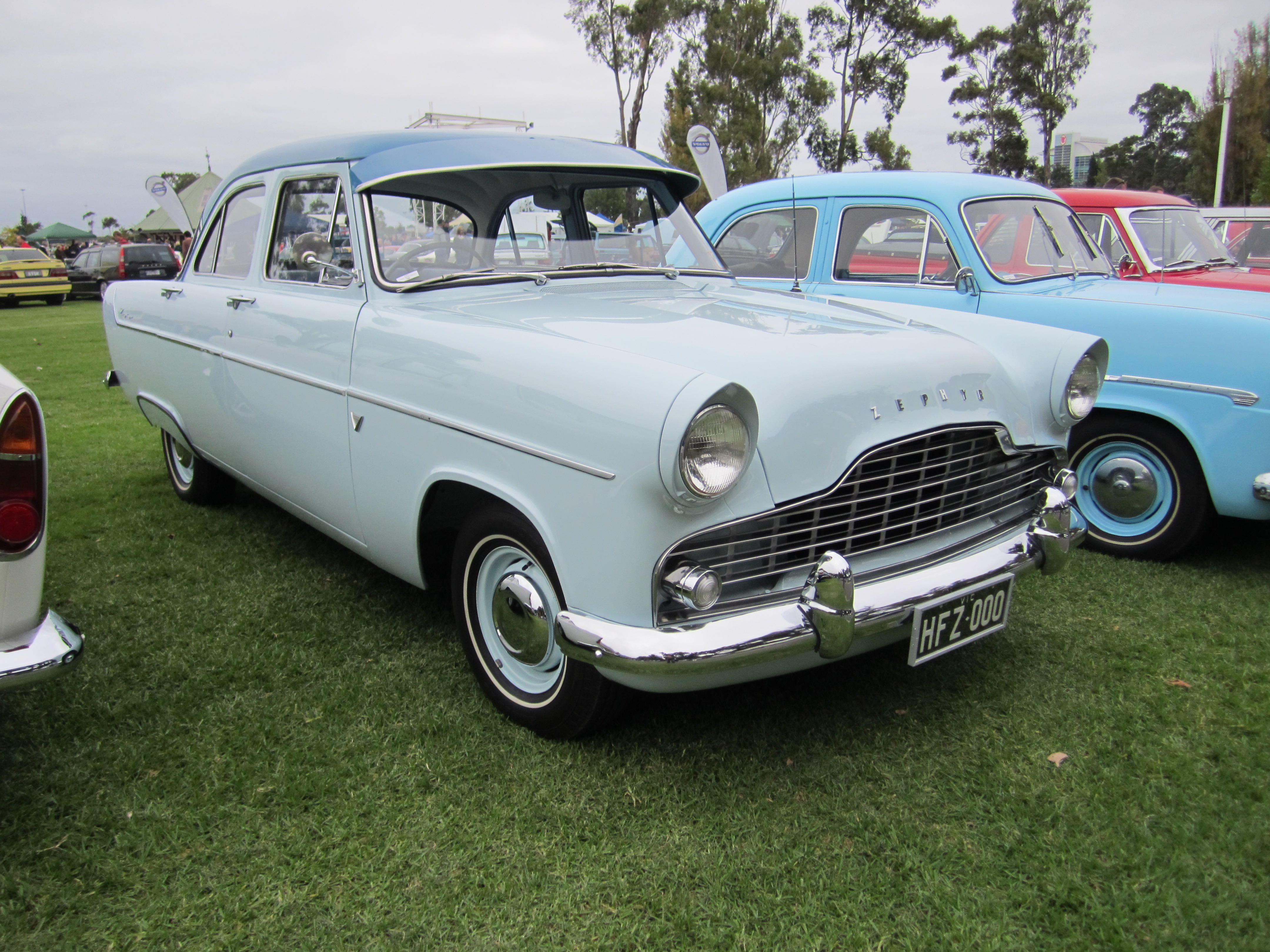 Built in England from 1956-62 and assembled in Australia from 1956-60 Engine; 86hp 156 cu in 6 cyl Available in Sedan, Wagon, Convertible and unique to Australia; Utility